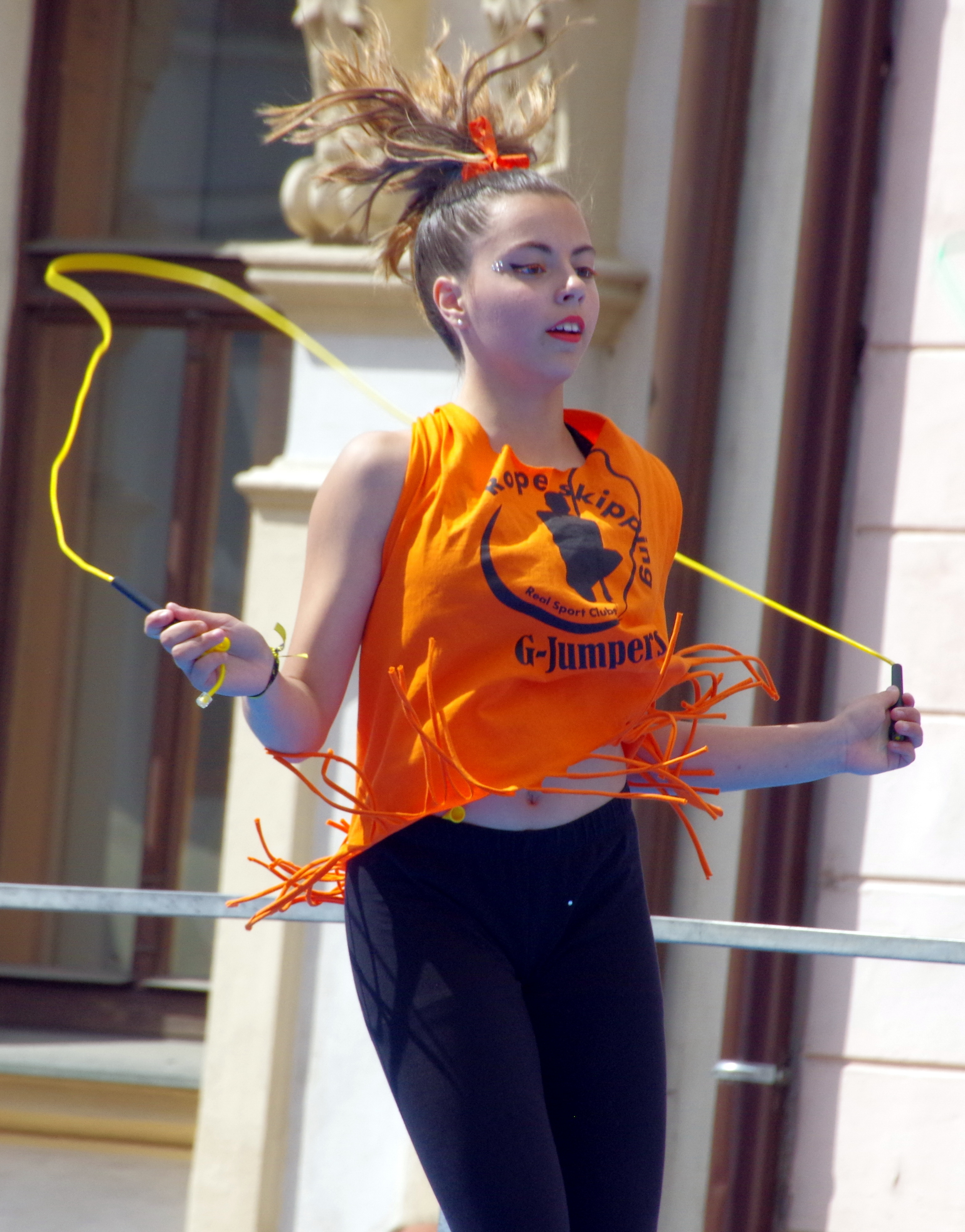 21.7.16 Eurogym 2